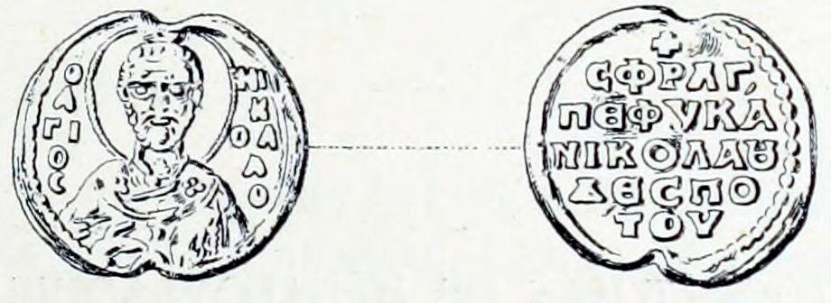 Seal of the despotes Nikolaos, ruler of Cephalonia and Epirus